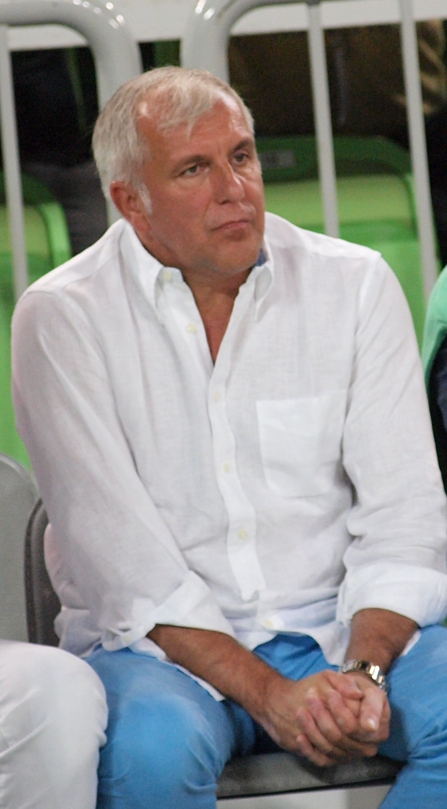 Željko Obradović (Жељко Обрадовић) on friendly match Slovenia-Serbia in Ljubljana 27.8.2015.